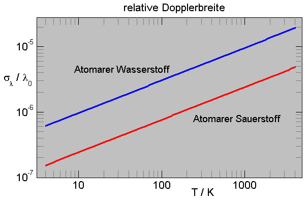 Dependence of the Doppler broadening on temperature for atomic hydrogen and oxygen